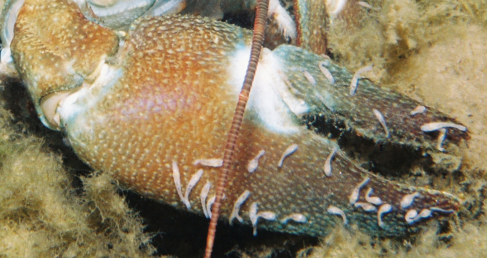 Branchiobdellid annelids attached to a signal crayfish in Lake Washington in Gene Coulon, Washington.